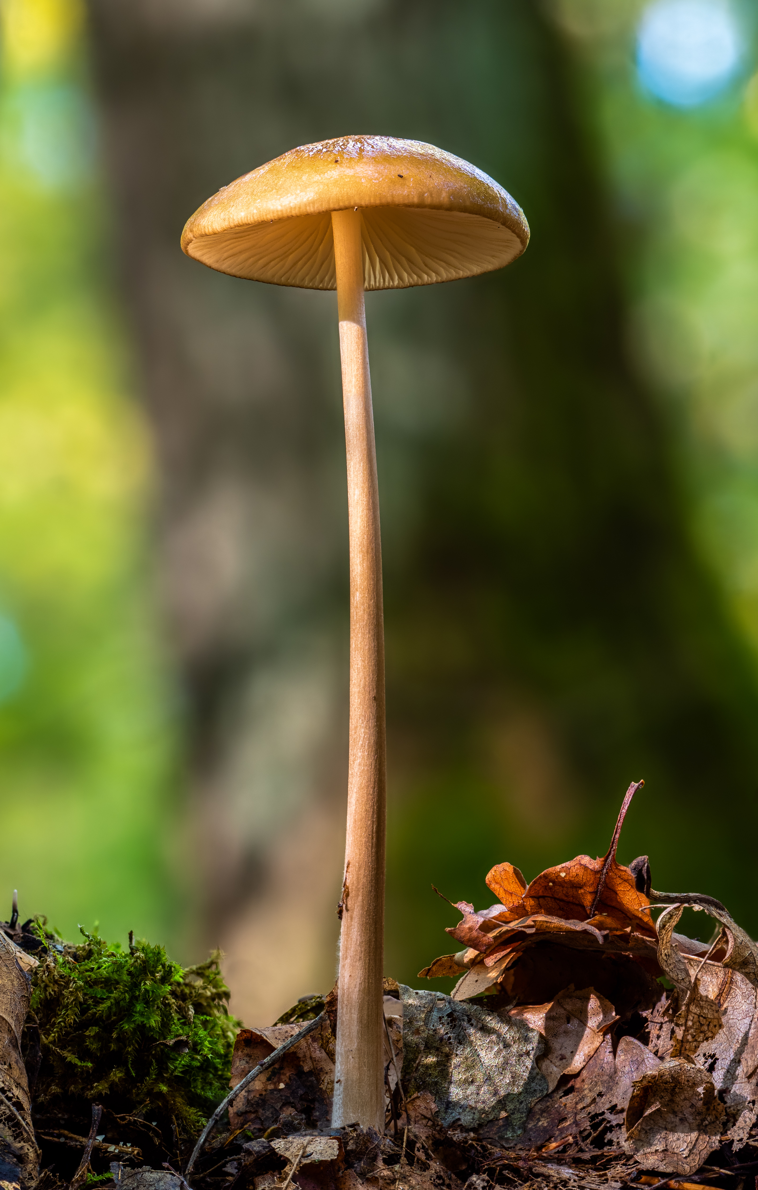 Forest bald head Psilocybe pelliculosa in the Bruderwald in Bamberg. Focus stack of 15 frames.